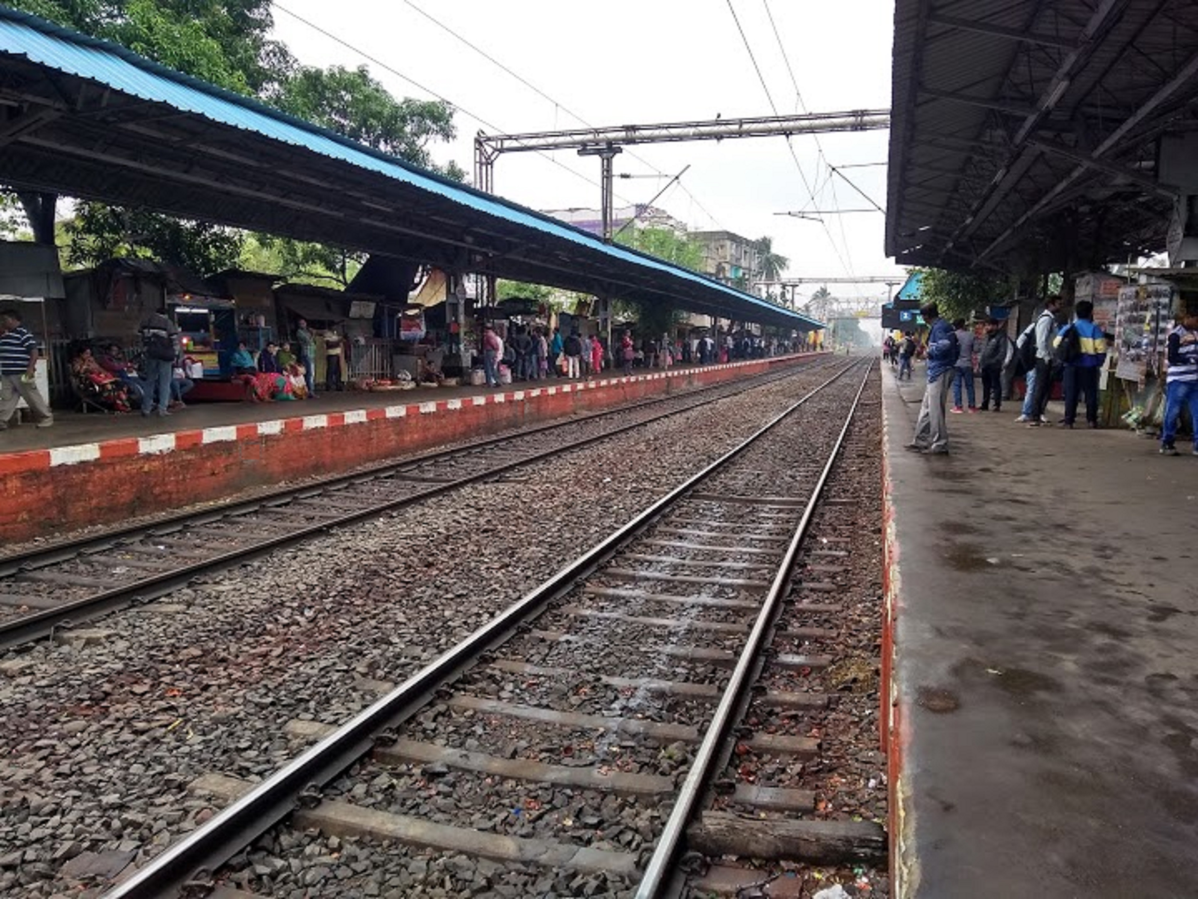 Jaynagar Railway Station